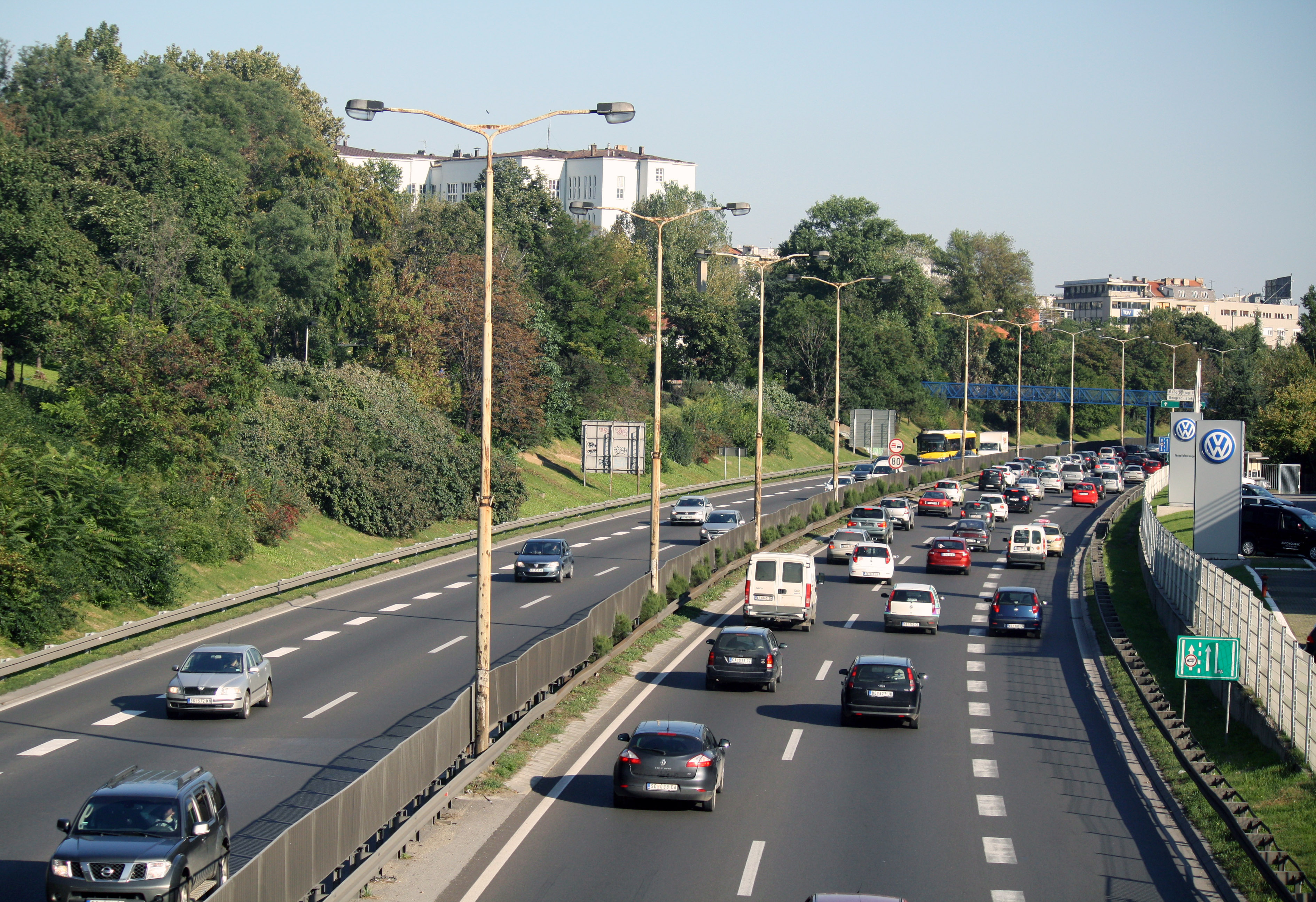 A3 motorway in Belgrade.